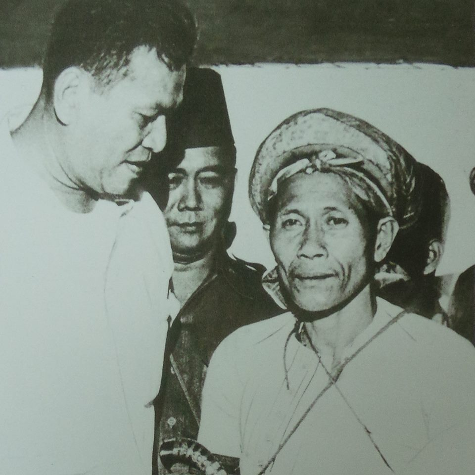 Datu Hadji Kamlon, also known as Maas Kamlon, is a Tausug freedom fighter who fought during the Second World War, and afterwards, staged his own uprising against the Philippine government.